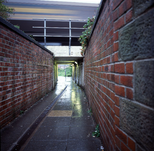 Tittle Cott Bridge. Looking southwards, a pedestrian subway linking the town centre with the Smawthorne residential area of Castleford